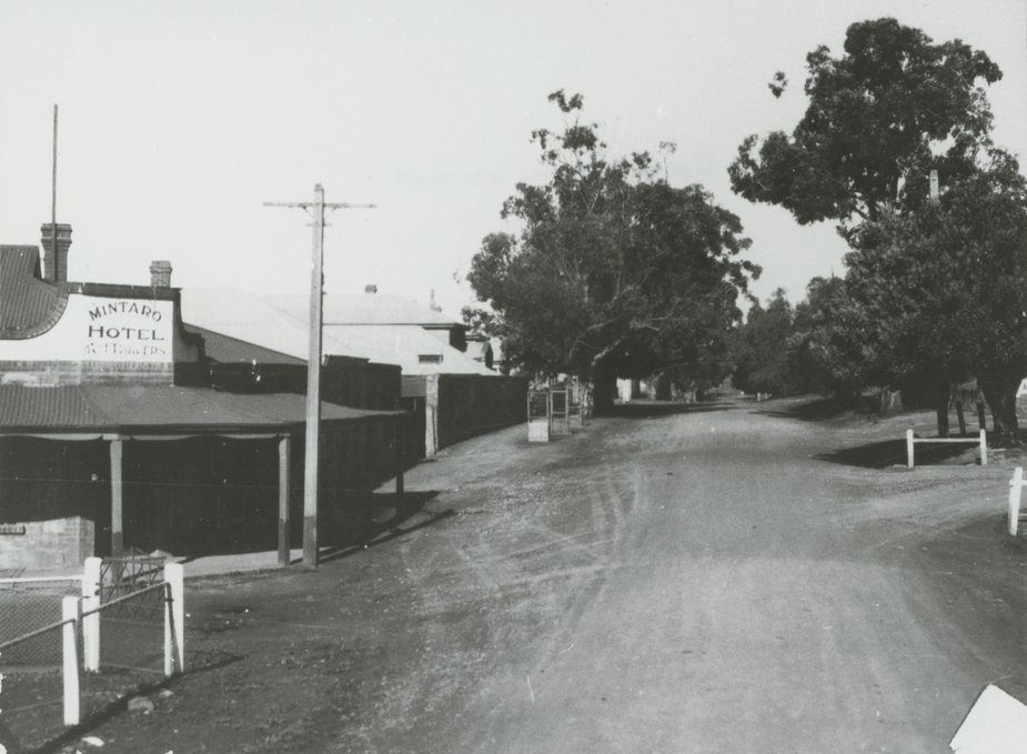 Mintaro Hotel (now Magpie & Stump Hotel) in 1938. Black and white photograph; 16.5 cm x 20.8 cm. Creator unknown, but part of the Mintaro collection.